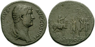 Hadrian. 117-138 AD. Æ Sestertius (31mm, 25.61 g). Struck circa 134-138 AD. Bare-headed and draped bust right [EXERCITVS] RAETICVS, Hadrian on horseback right, addressing three soldiers. RIC II 928; BMCRE 1684; Cohen 579. Fine, black patina, some roughness. Rare.